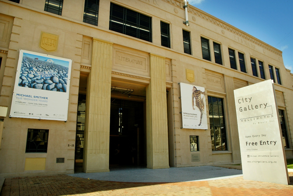 taken by Wellington City Council photographer Neil Price.